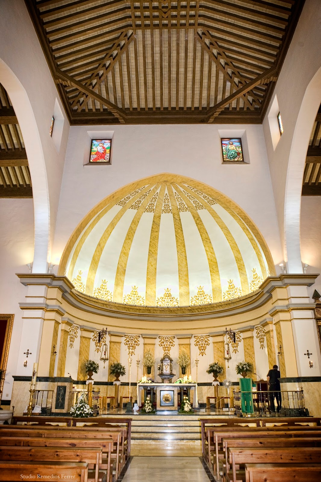 Vista interior